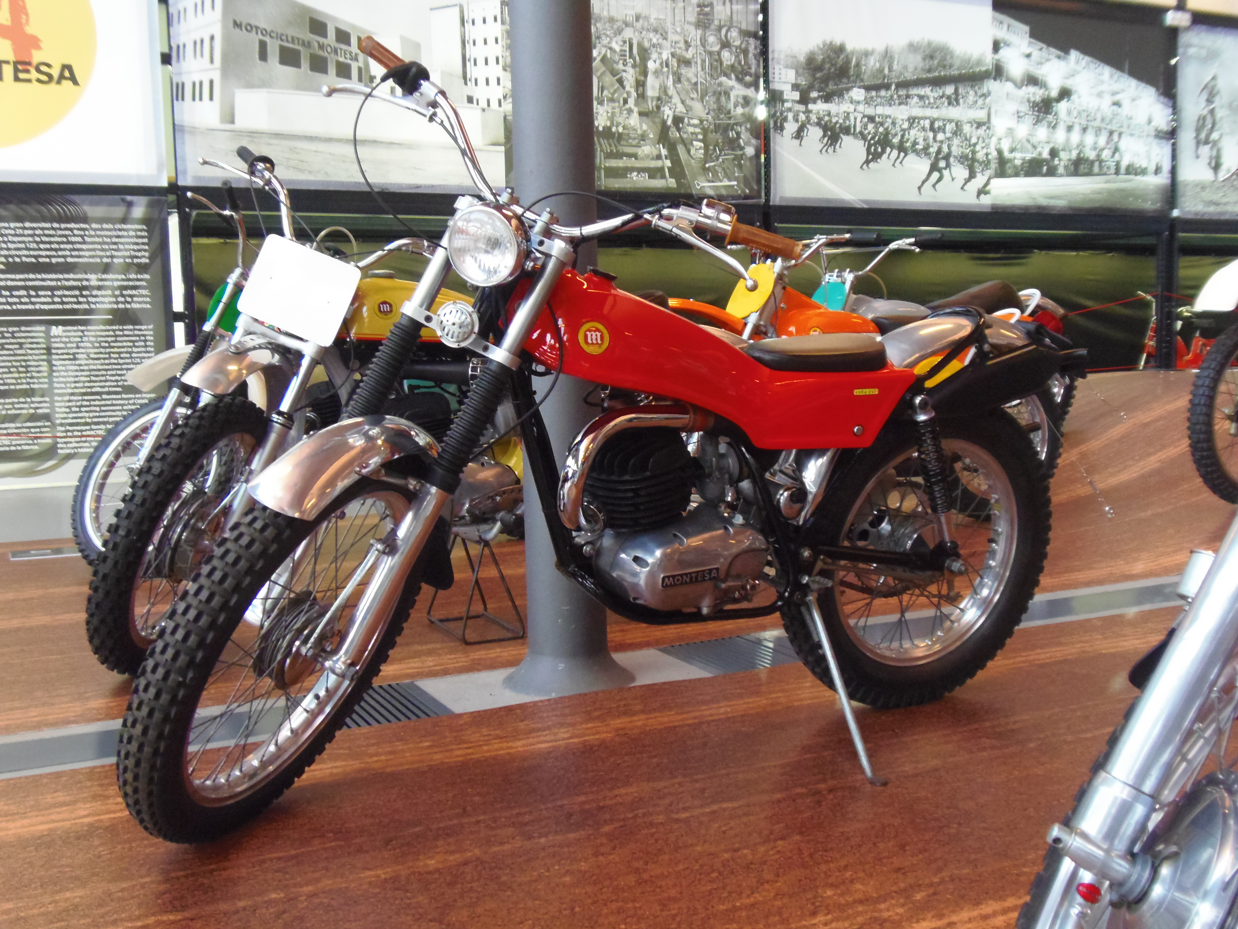 Montesa Cota 247 (around 1974)